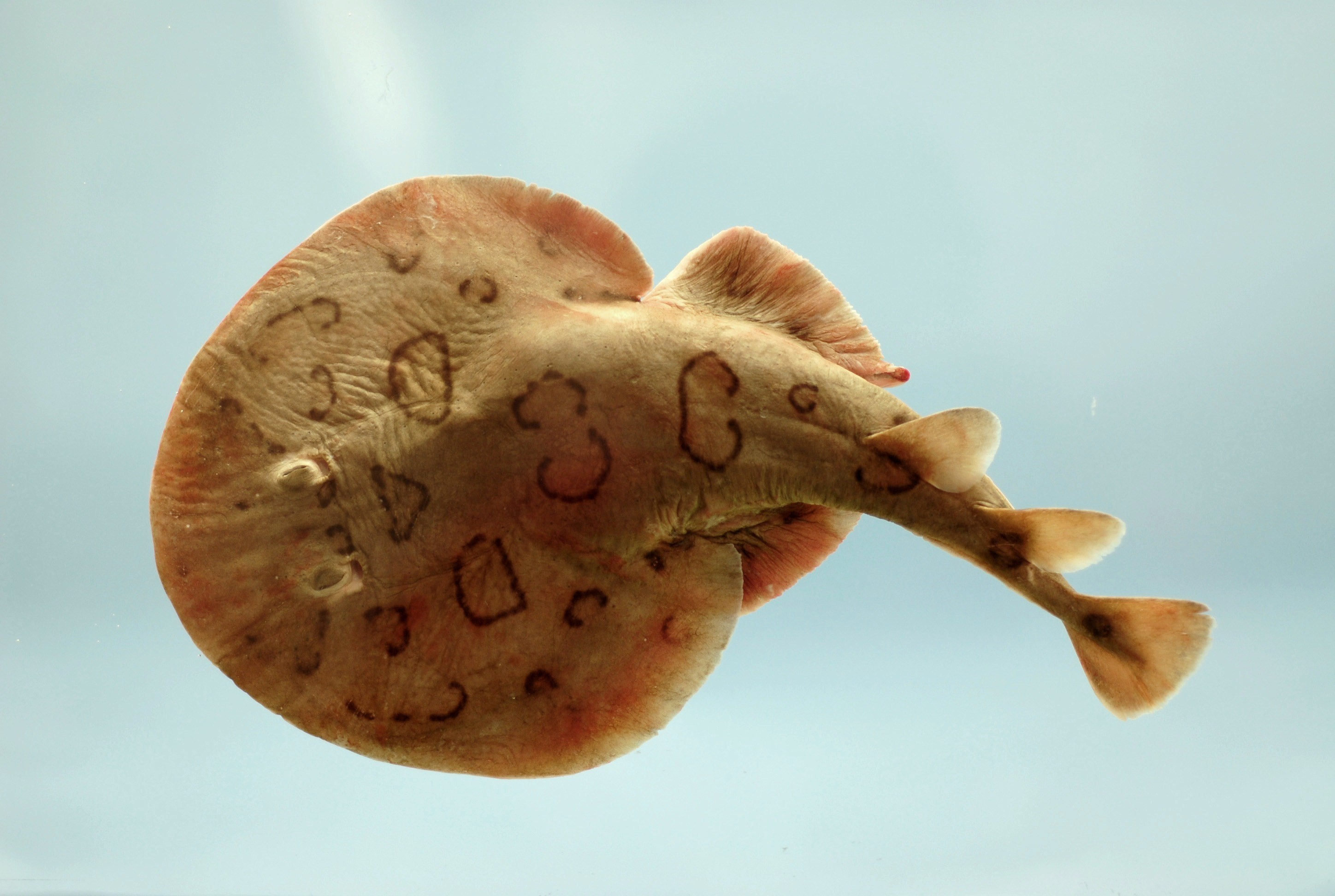 Lesser electric ray (Narcine bancroftii). Gulf of Mexico.